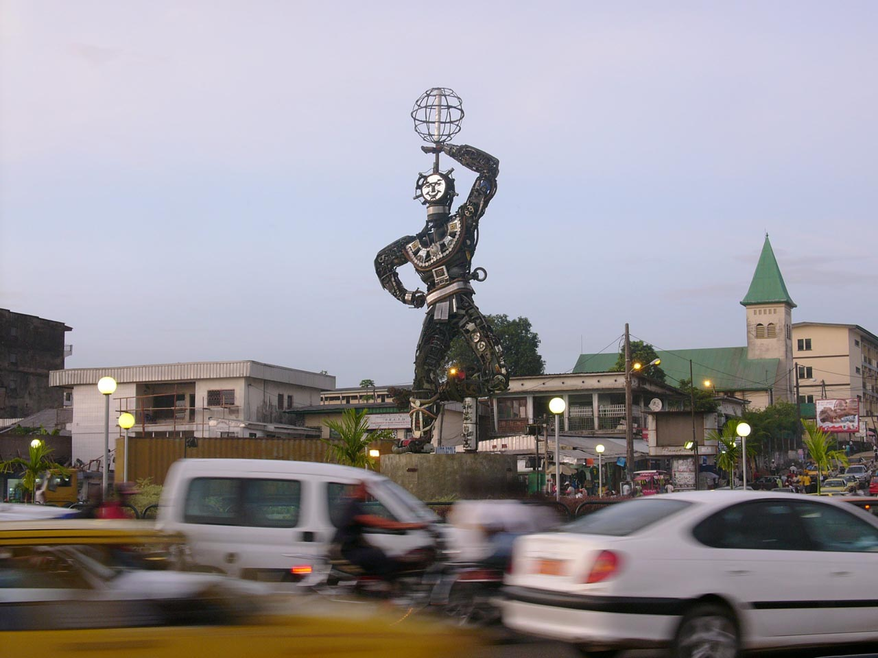 Joseph-Francis Sumégné, La Nouvelle Liberté, Douala, 1996. Public artwork commissioned by doual'art in 1996 and renovated in 2007 for the SUD Salon Urbain de Douala 2007. Photo by Christian Hanussek, Douala, 2009.